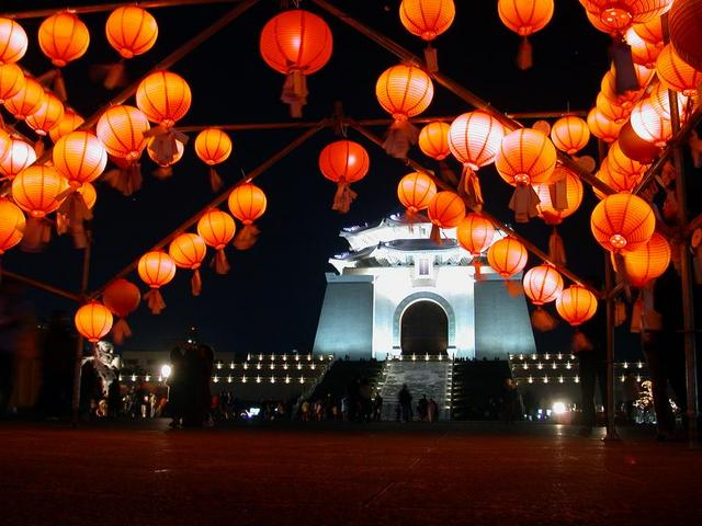 The Chiang Kai-shek Memorial Hall at night during the lantern festival